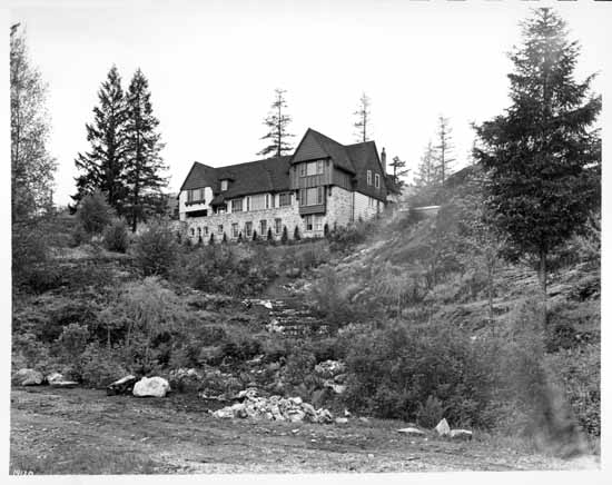 Photograph of Eric W. Hamber's ranch "Minnekhada" in Minnekhada Regional Park, Coquitlam, BC